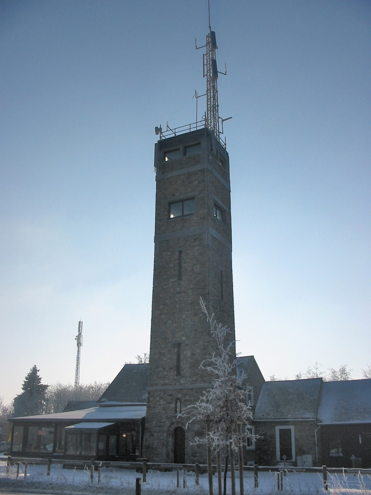 Belgium, Botrange, Communication tower